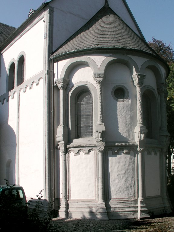 Goslar (Germany) , church "Neuwerkkirche", apse, photo 2005